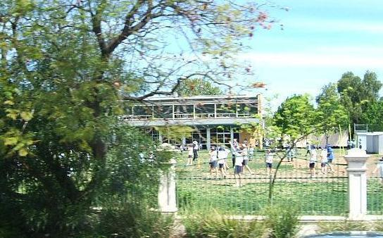 St Raphael's Catholic School, Parkside, Adelaide, South Australia